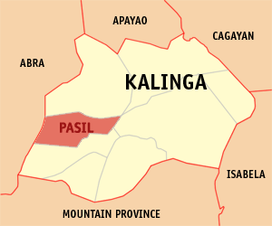 Map of Kalinga showing the location of Pasil